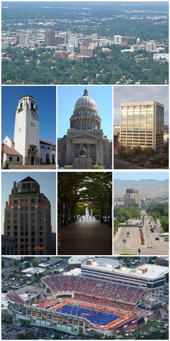 A photo collage of Boise, ID.